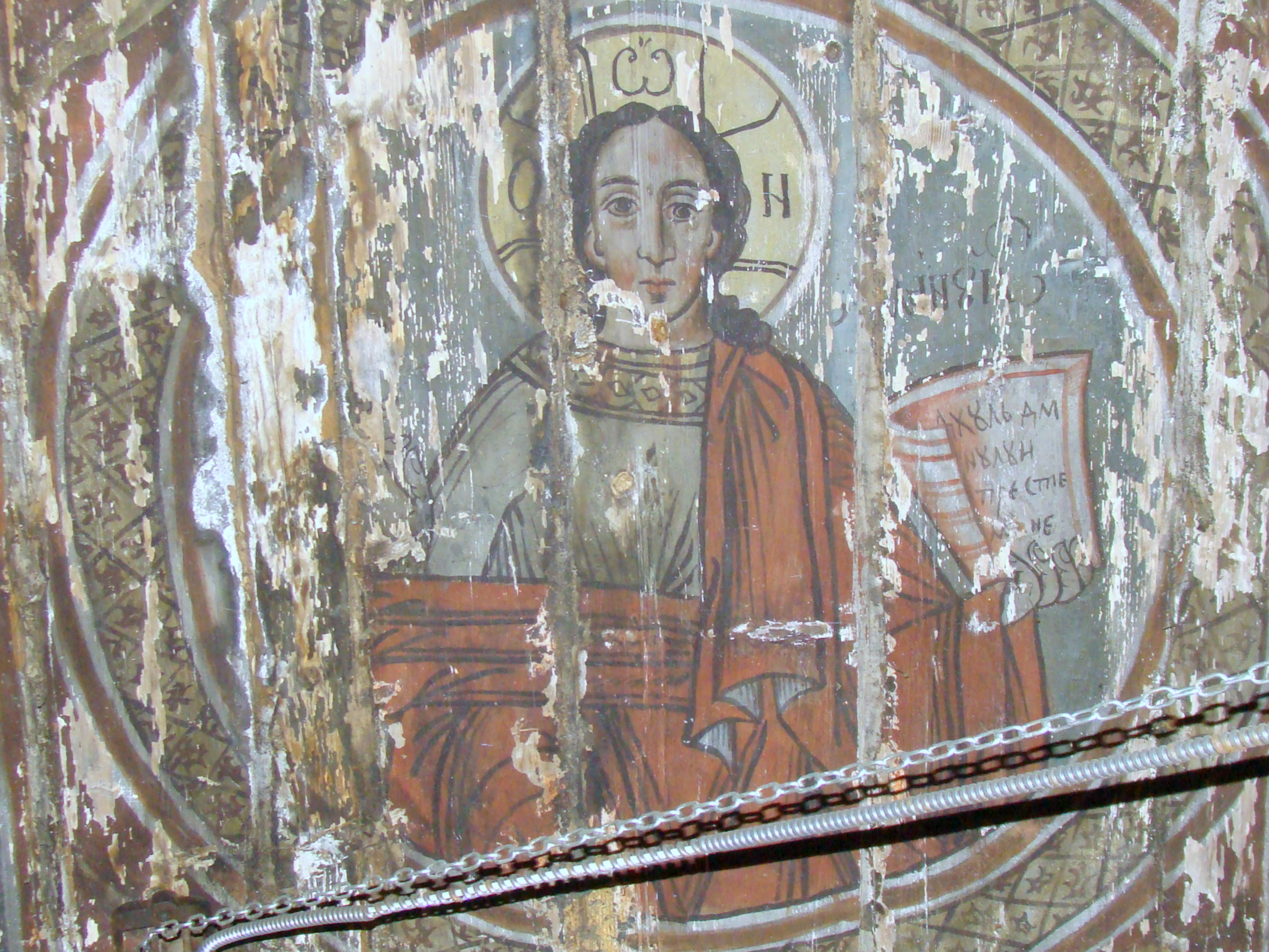 Wooden church in Chețani, Mureș county, Romania